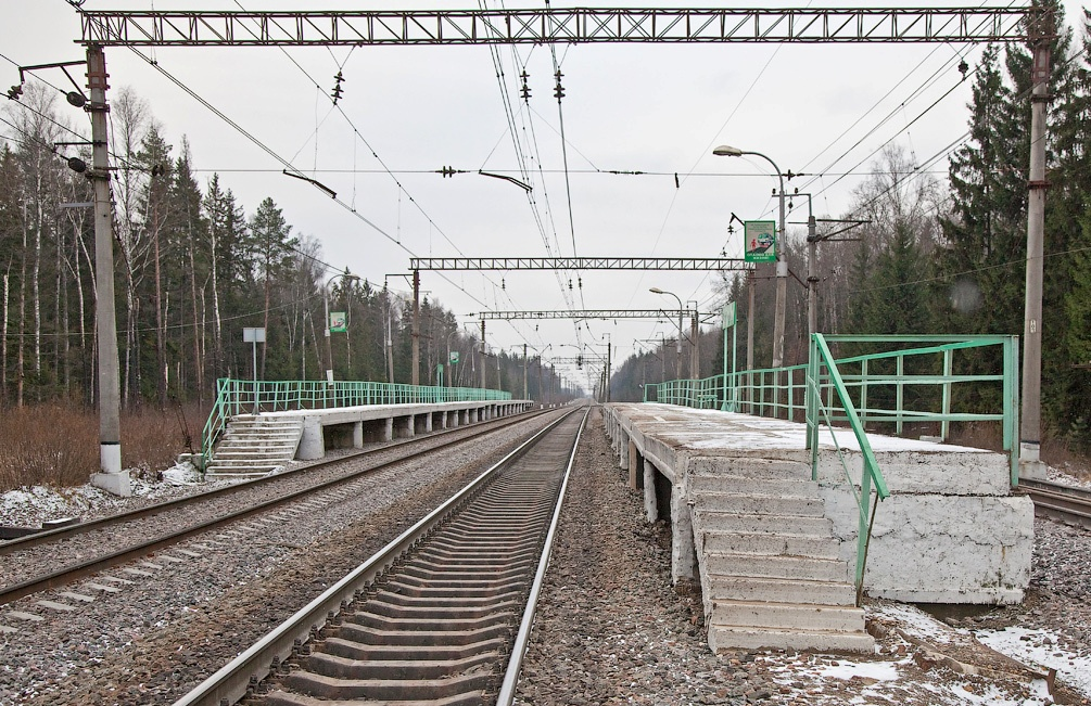 Platform 214 km at Big Moscow Loop